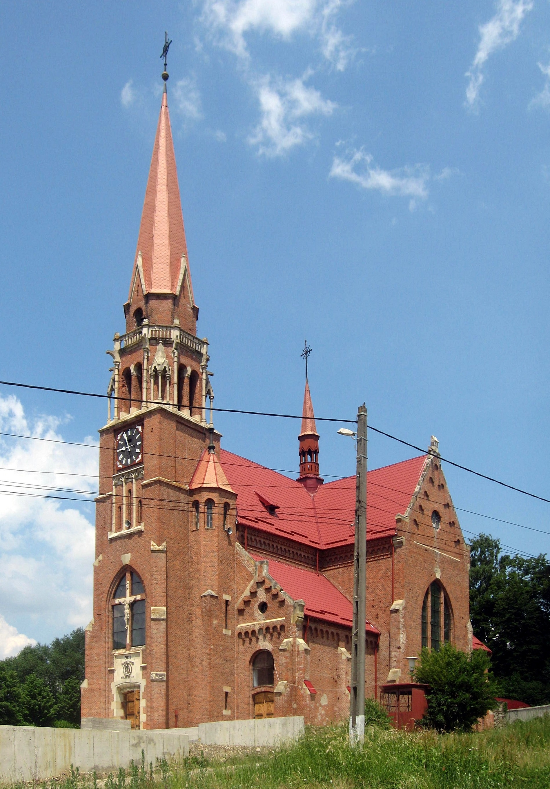 Roman-Catholic Church in Cacica, Suceava County, Romania